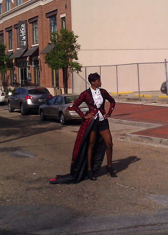 Jade Simmons in New Orleans during recording sessions for her #PaganiniProject Release